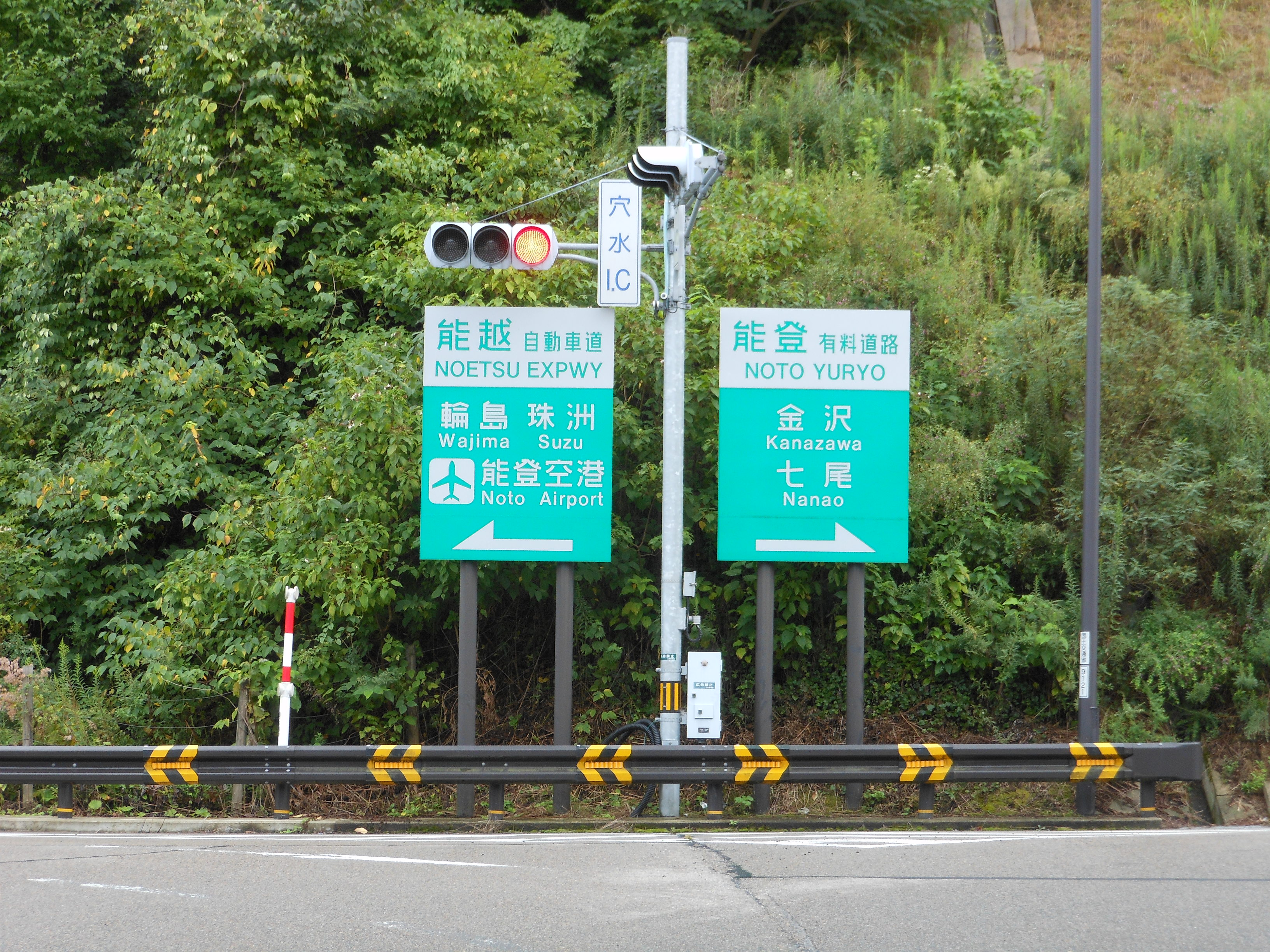 This is the intersection of Noetsu Expressway and Noto Yuryo in Anamizu, Ishikawa, Japan.